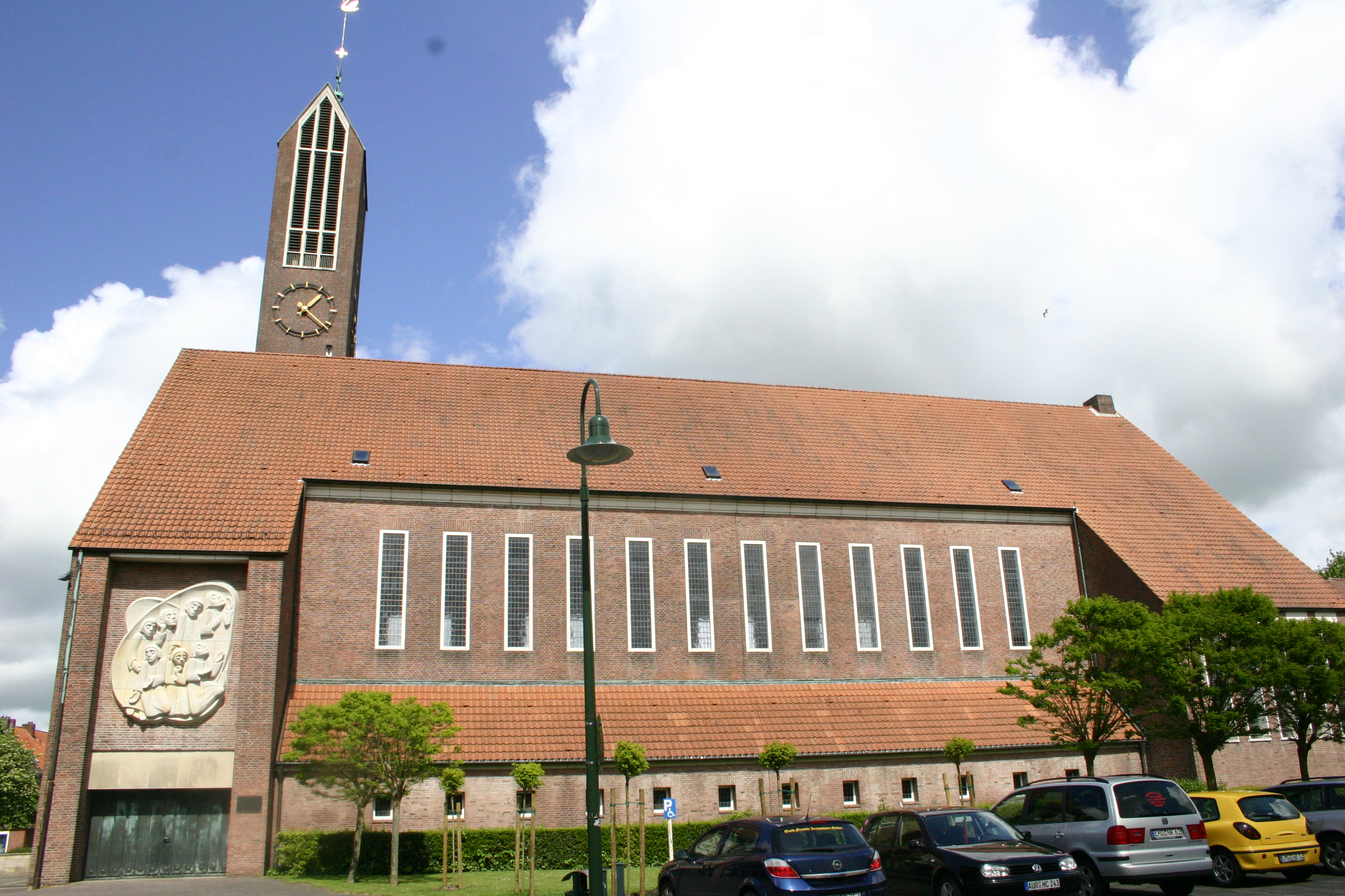 Martin Luther church in Emden, East Frisia, Germany